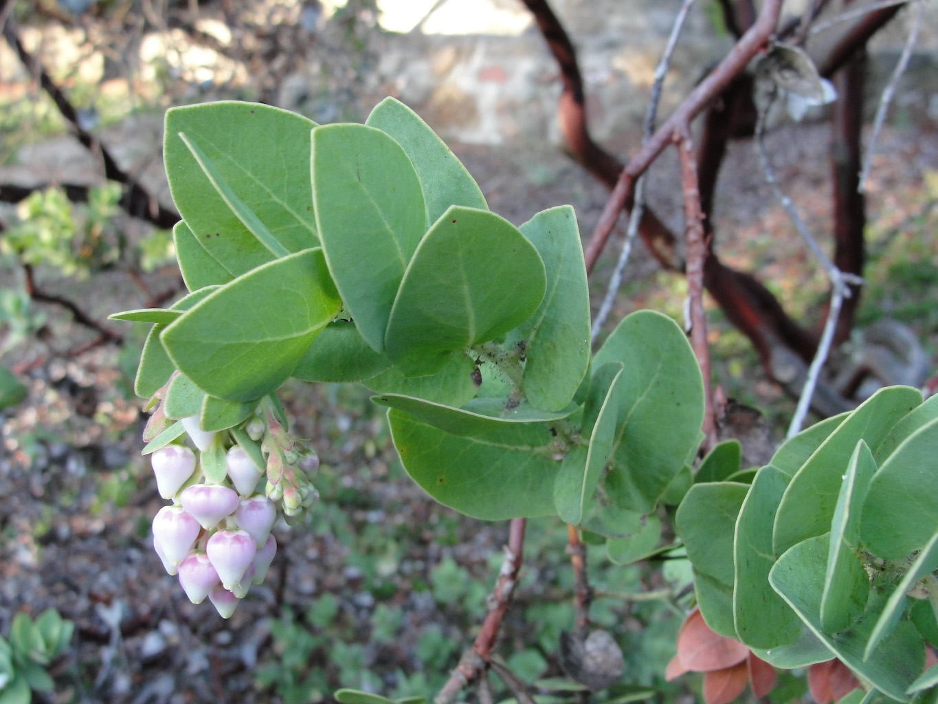 Arctostaphylos refugioensis. Endemic to Santa Barbara County, California. In the Regional Parks Botanic Garden, Berkeley Hills, California.